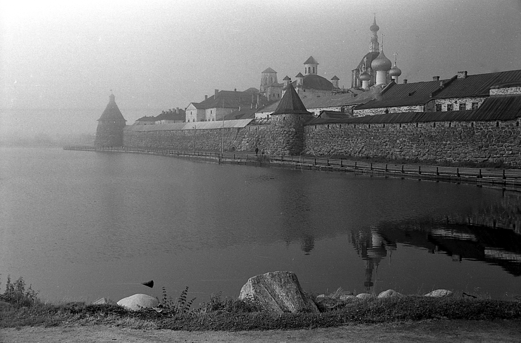 Solovetsky Monastery on the Solovetsky Islands in Onega Bay of the White Sea, Russia. It was used as the Solovki Special Purpose Camp or Solovki prison camp between 1937 and 1939, the first Soviet gulag. This photograph was taken from the northwest.